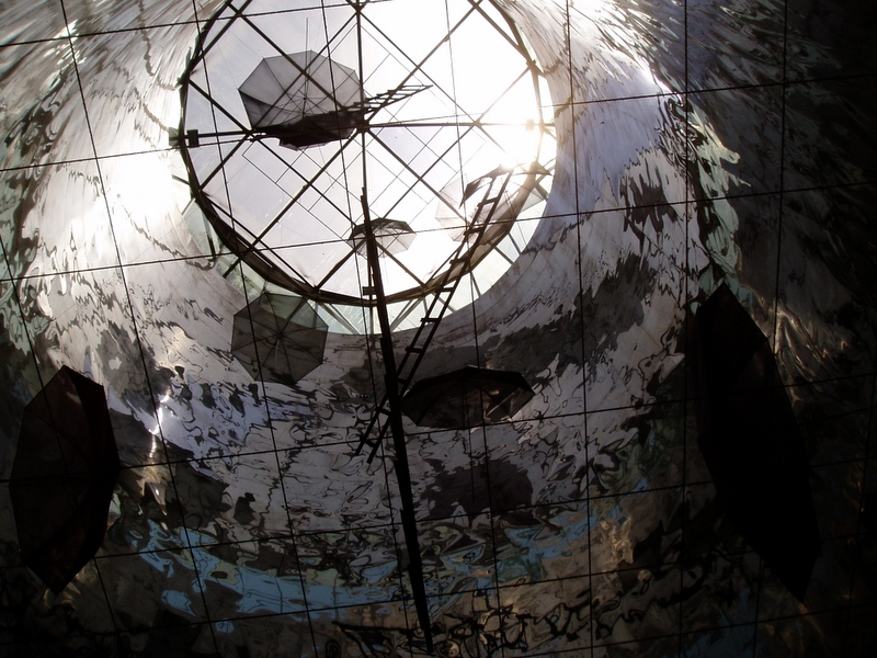 A "sculpture" with umbrellas and ladders at the Syntagma metro station. This is not a processed photo!